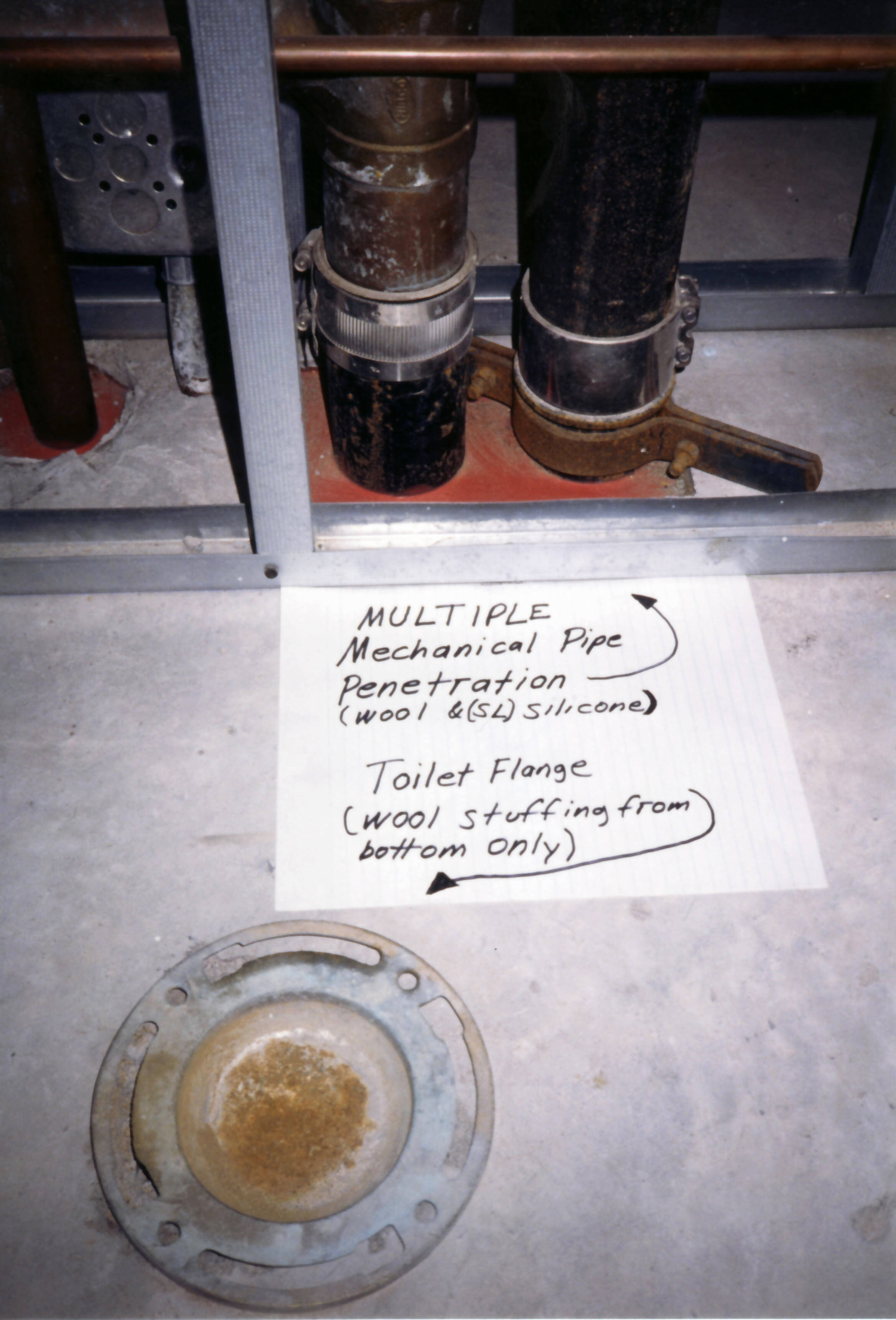 Toilet flange firestop and piping firestops. Toilets are not usually required to be firestopped, particularly if the drain pipe is noncombustible, since the penetration is finished off with a ceramic bowl filled with water, which would fare well during a building fire. It is, however, customary to stuff in rockwool packing at the very least.